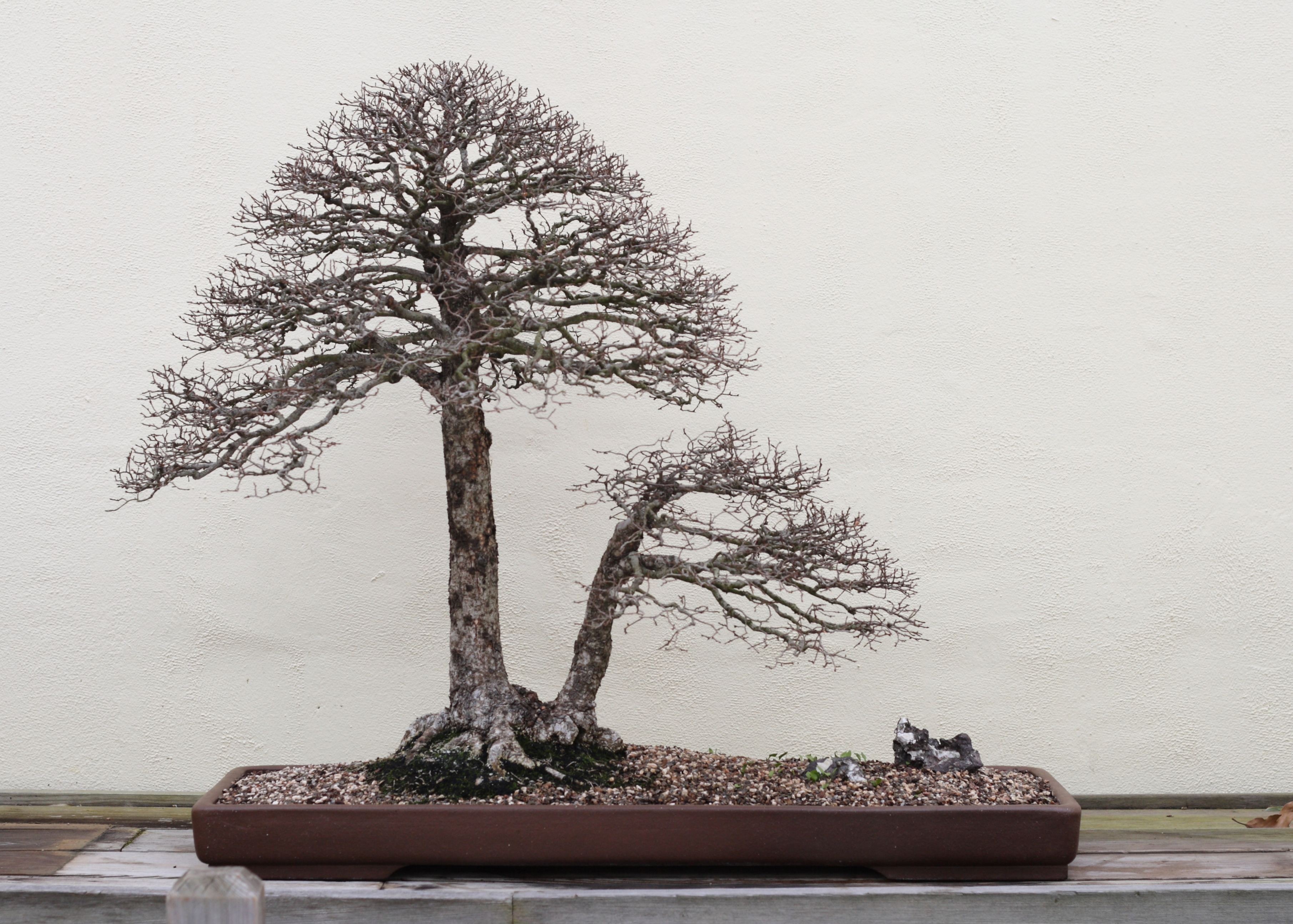 A Small-leaved Elm Ulmus minor bonsai, North American Collection 257, on display at the National Bonsai & Penjing Museum at the United States National Arboretum. According to the tree's display placard, it has been in training since 1982. It was donated by Keith B. Scott.